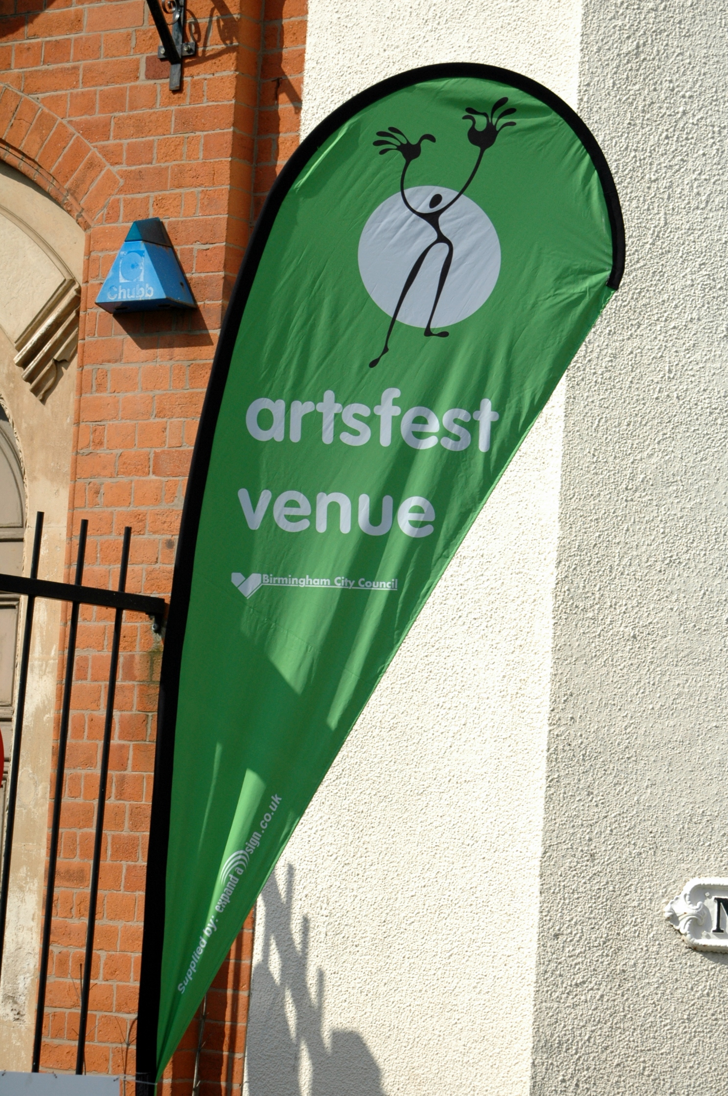 This is one of a number of flags placed at venues for ArtsFest in Birmingham in September 2008. This particular flag was located on Northwood Street by the Royal Birmingham Society of Artists gallery.